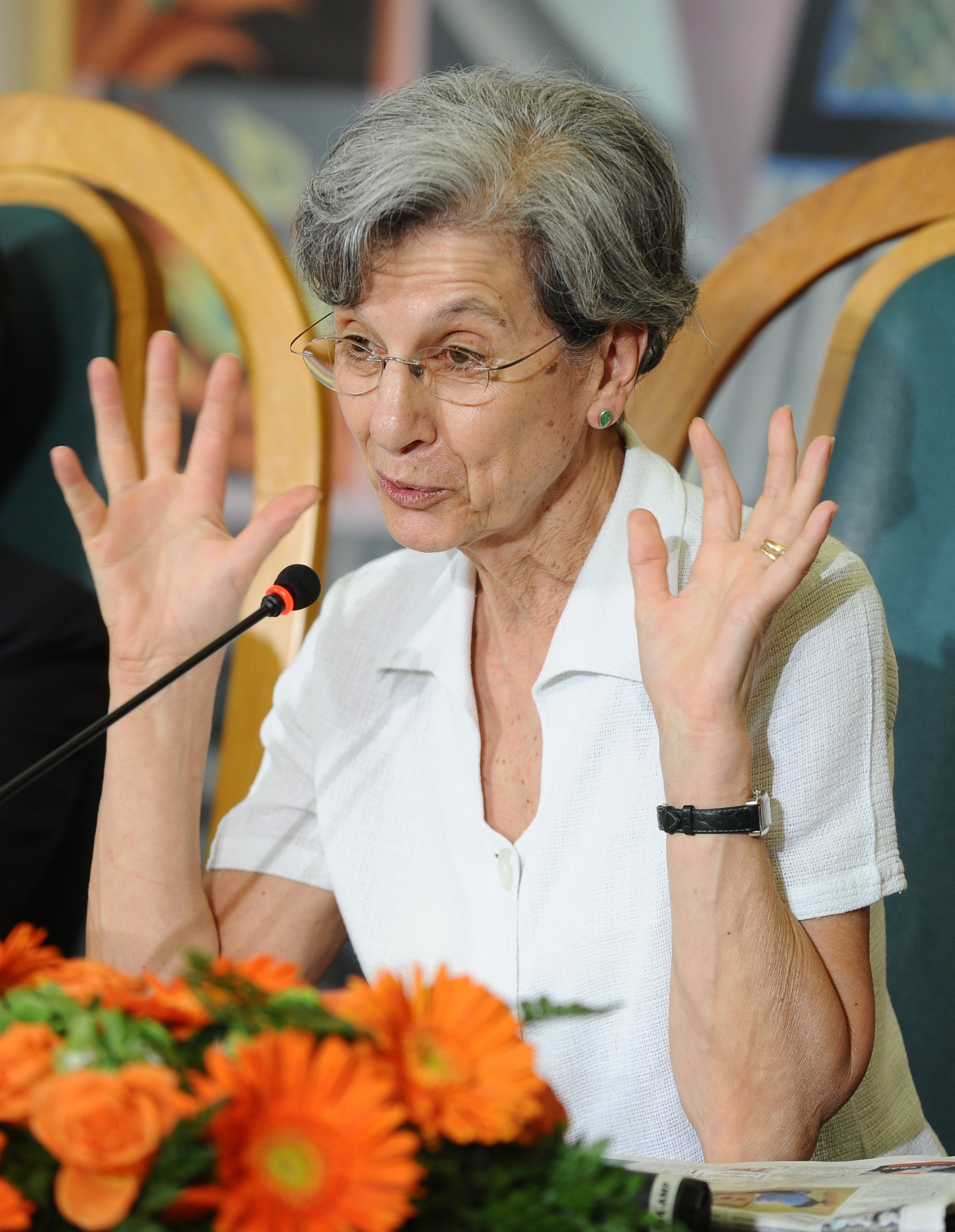 Chiara Saraceno at the Festival of Economics in Trento.